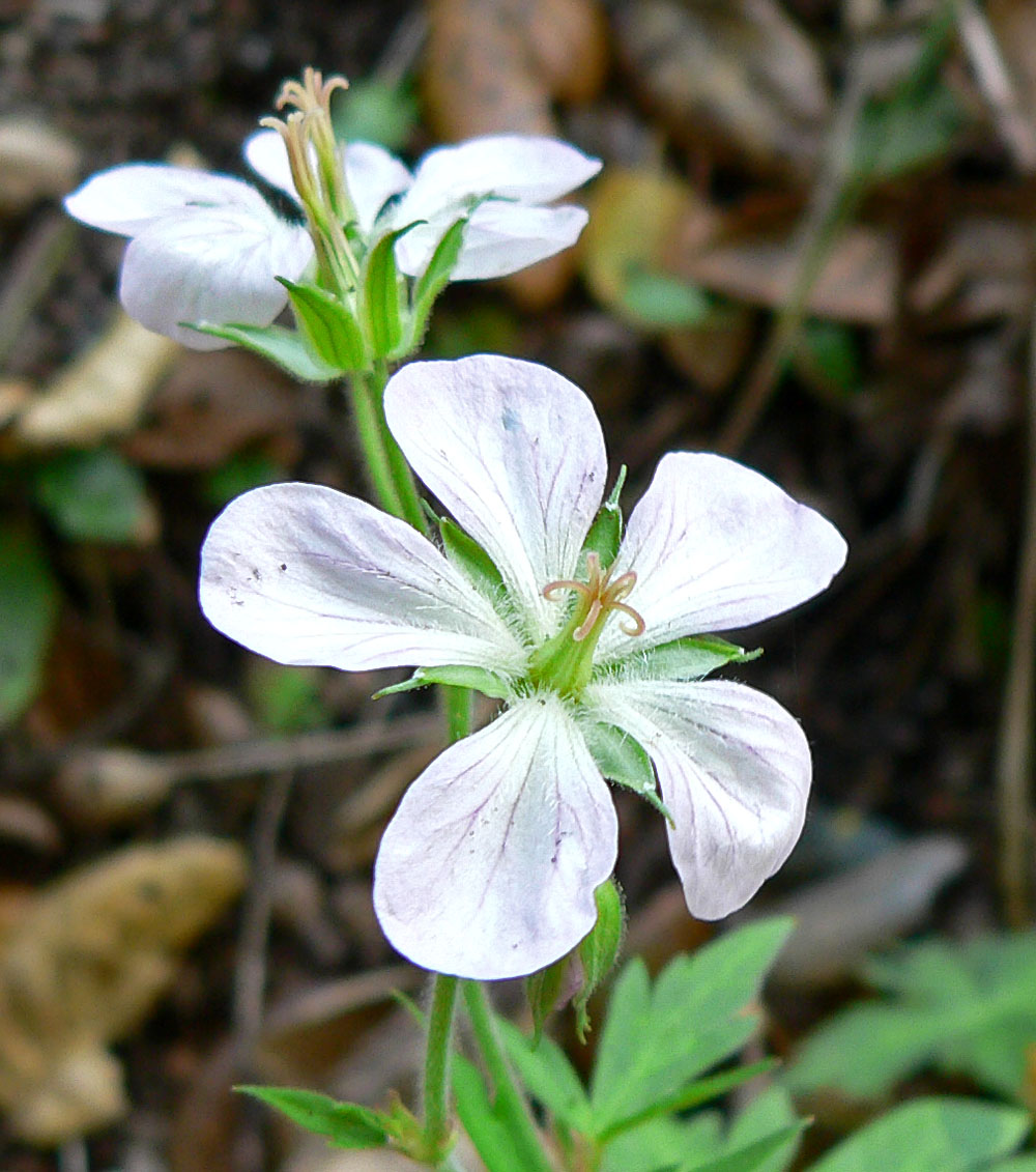 Geranium richardsonii at the University of California Botanical Garden, Berkeley, California